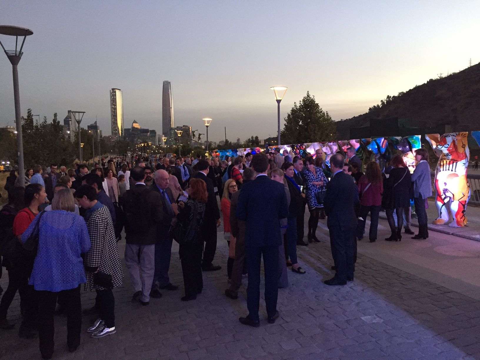 United Buddy Bears - Santiago de Chile, 2015